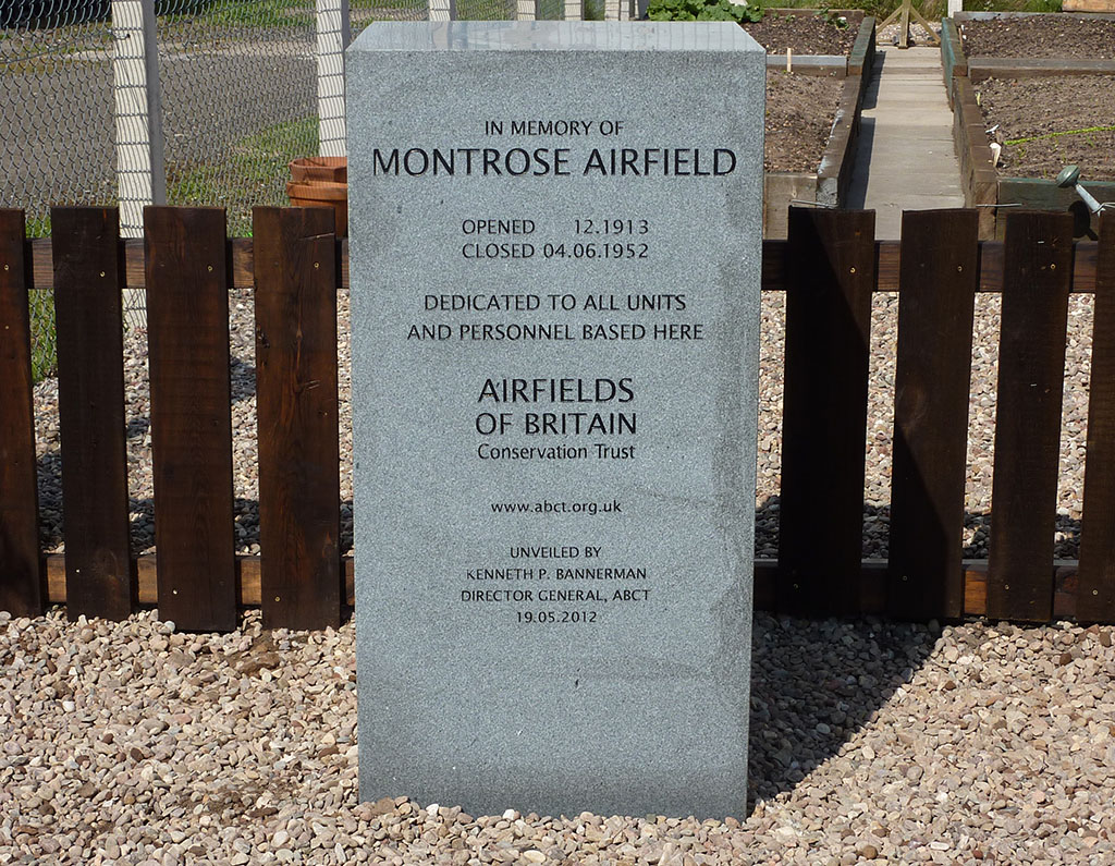 Monument In Memory of Montrose Air Station. Dedicated to all units and personnel based there. Unveiled on 19 May 2012 by Kenneth P. Bannerman, Airfields of Britain Conservation Trust.